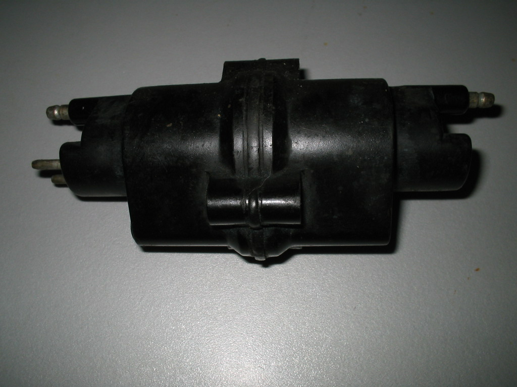 Ignition coil of a Citroën 2CV